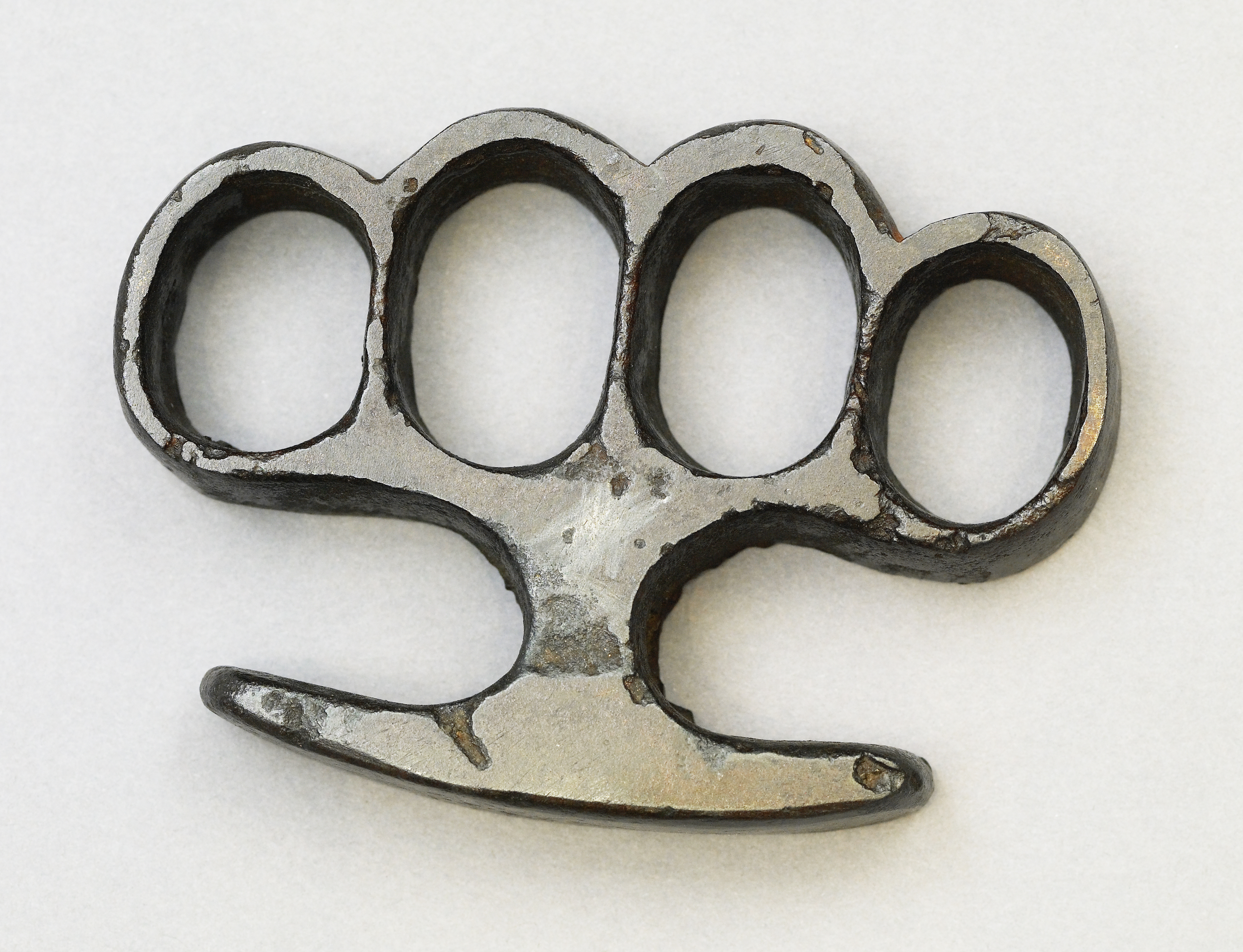 Metal brass knuckles on grey background.